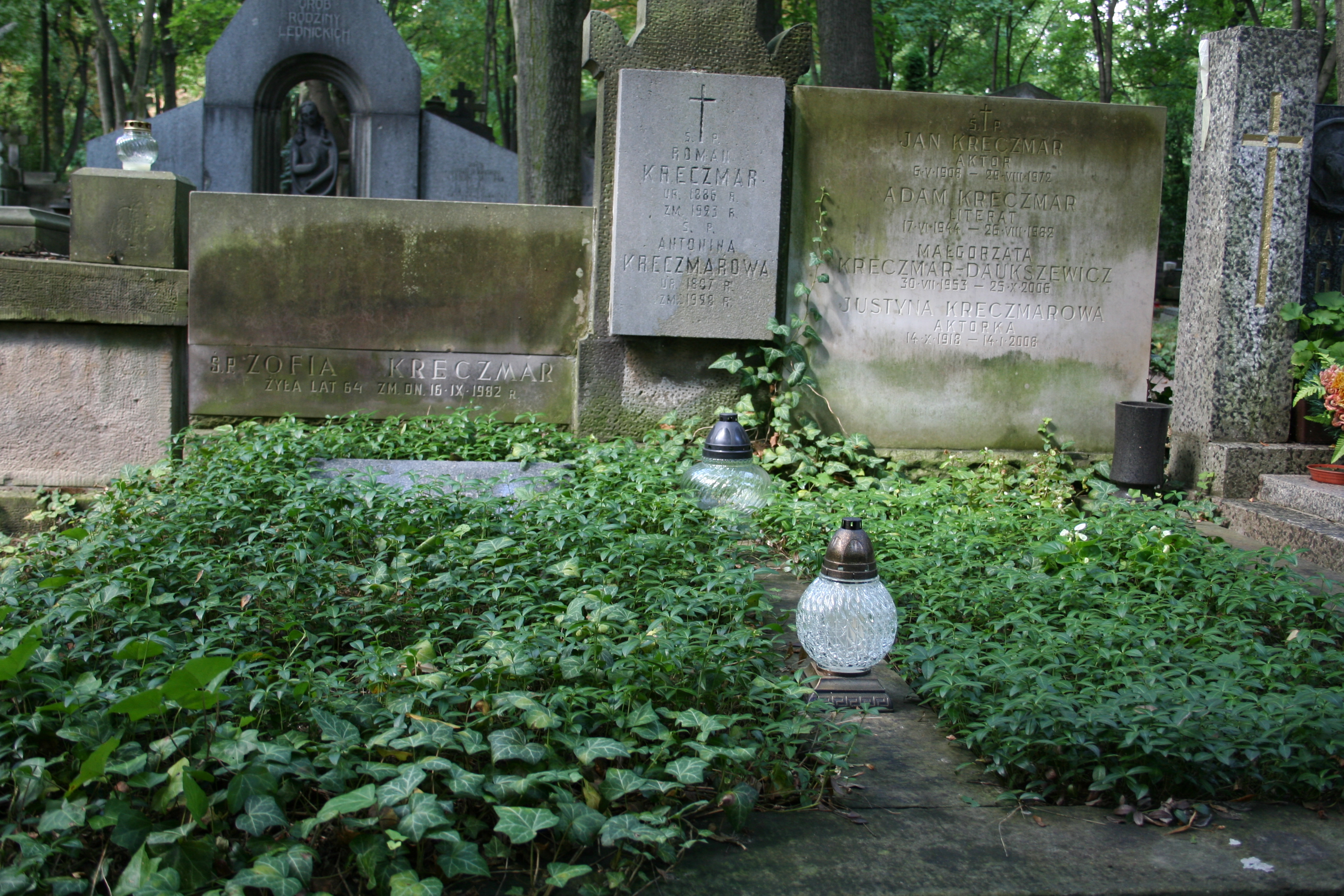 Grave of Kreczmar family at Powązki Cemetery in Warsaw, Poland